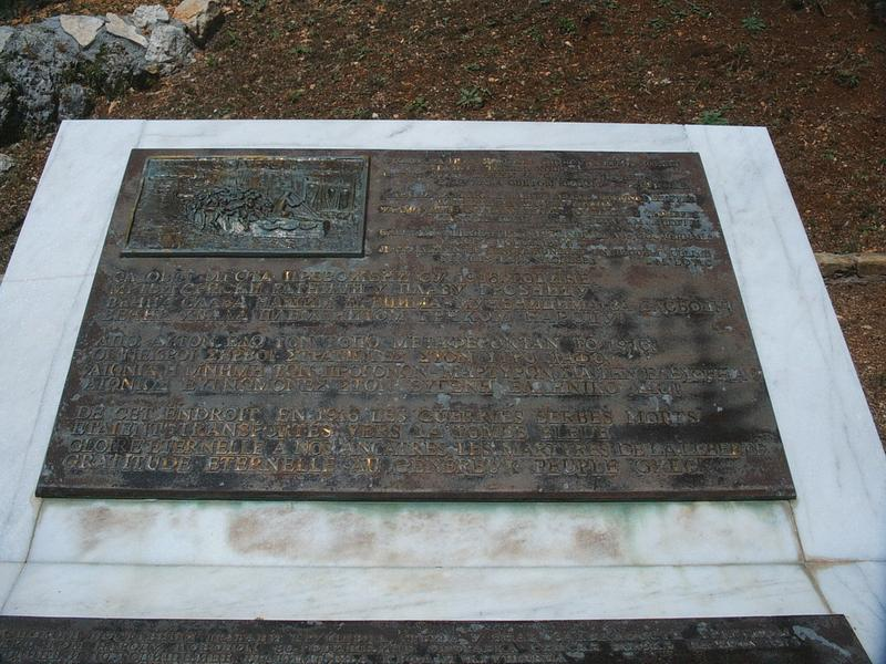 Plate at place near Blue Tomb on Vido island. Author:Milica Markovic